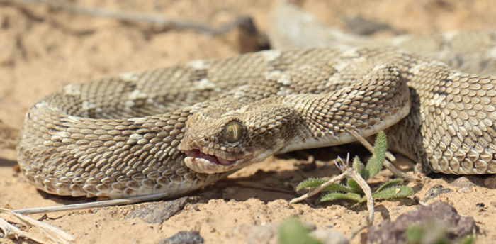 Echis carinatus multisquamatus in Ghasr-e Bahram, Kavir National Park, Tehran Province, Iran